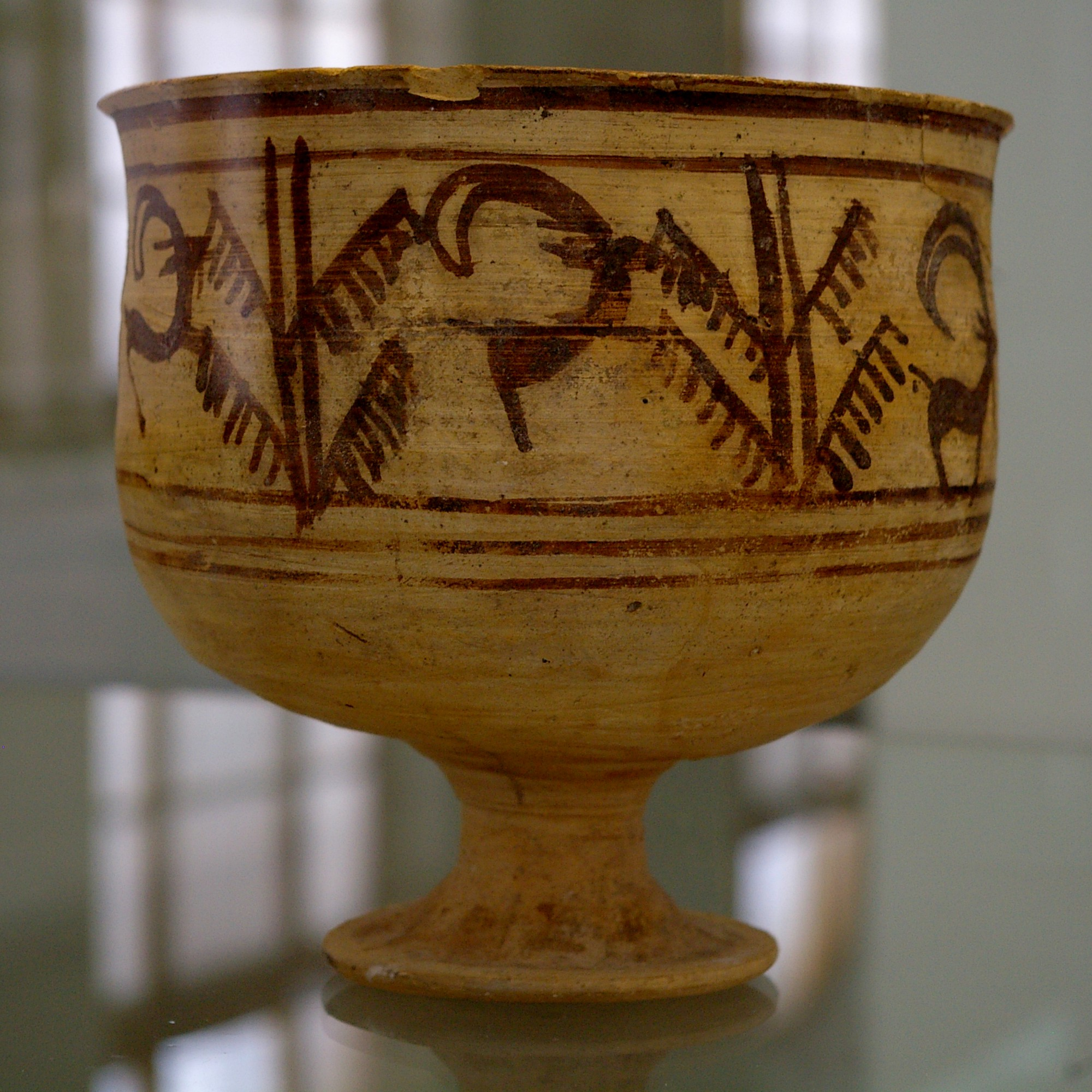 Pottery vessel found in Shahr-i Sokhta, Iran. Late half of 3rd Millennium B.C. In five pictures a goat steps toward a tree, climbs it up, eats leaves and comes down. This picture is one of earliest examples of artist's attempt to show motion in means of animation.